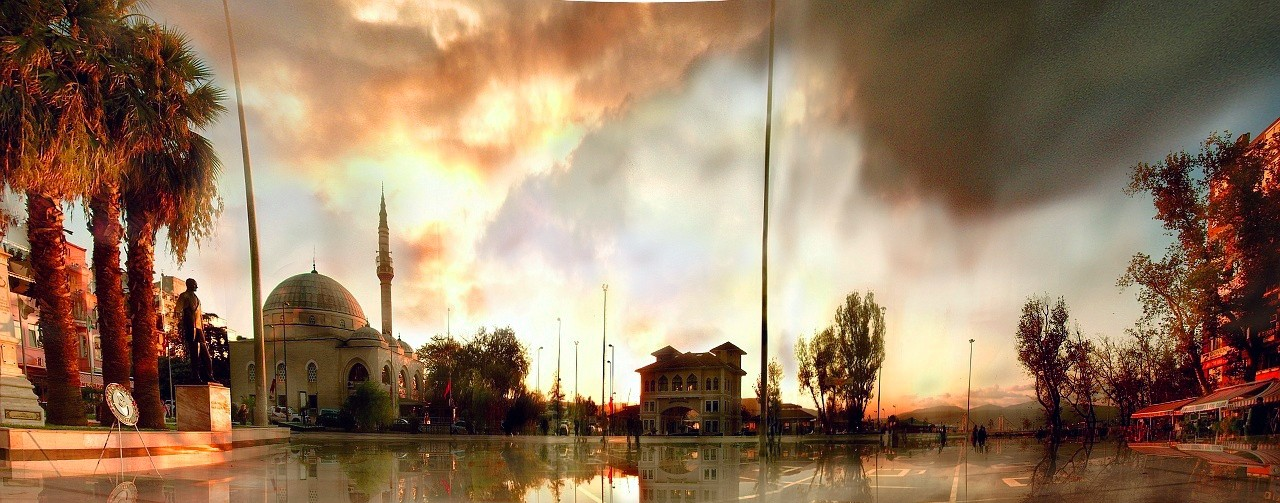 a wideangle view from cumhuriyet square in city center, bandirma.